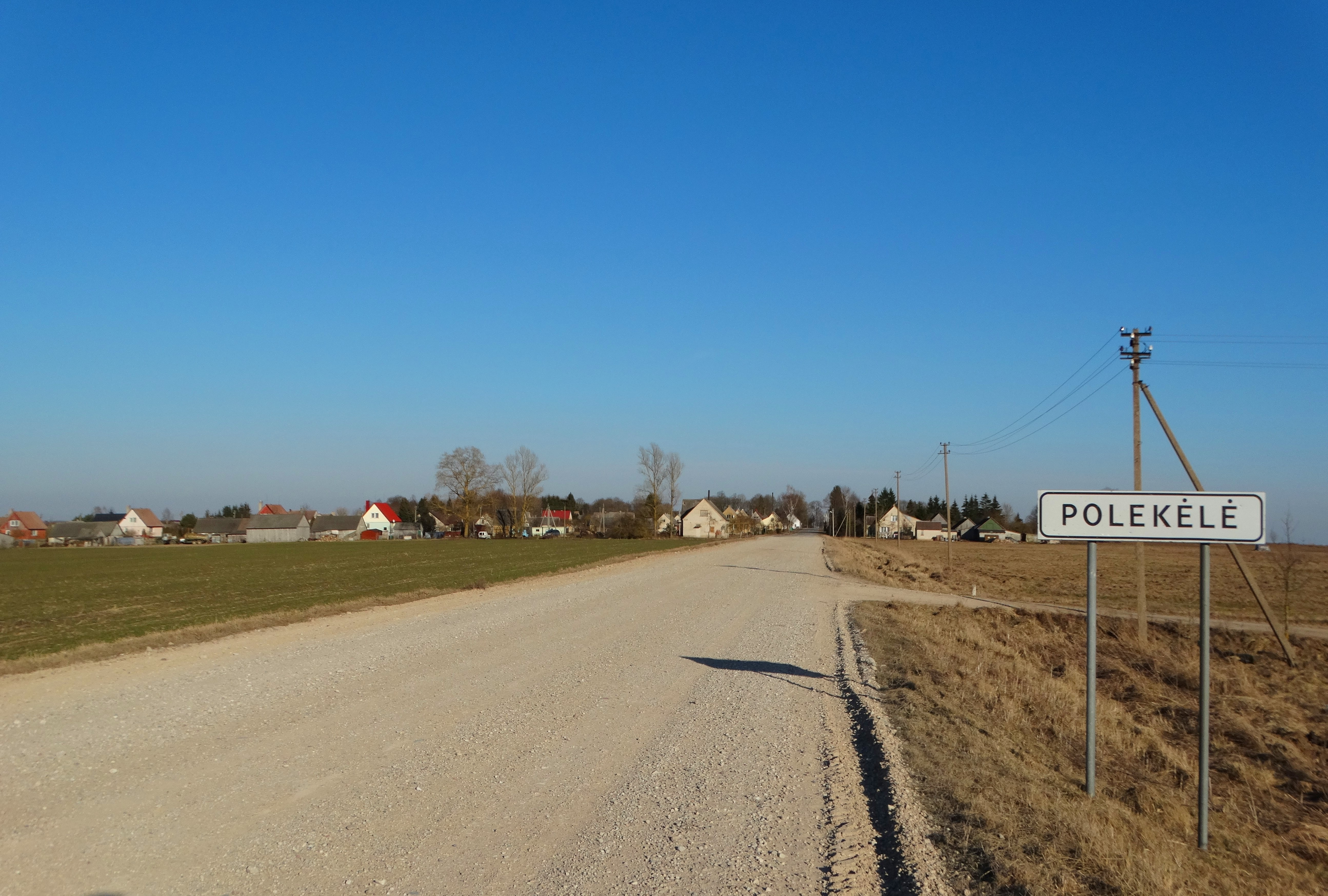 Polekėlė, Radviliškis District, Lithuania